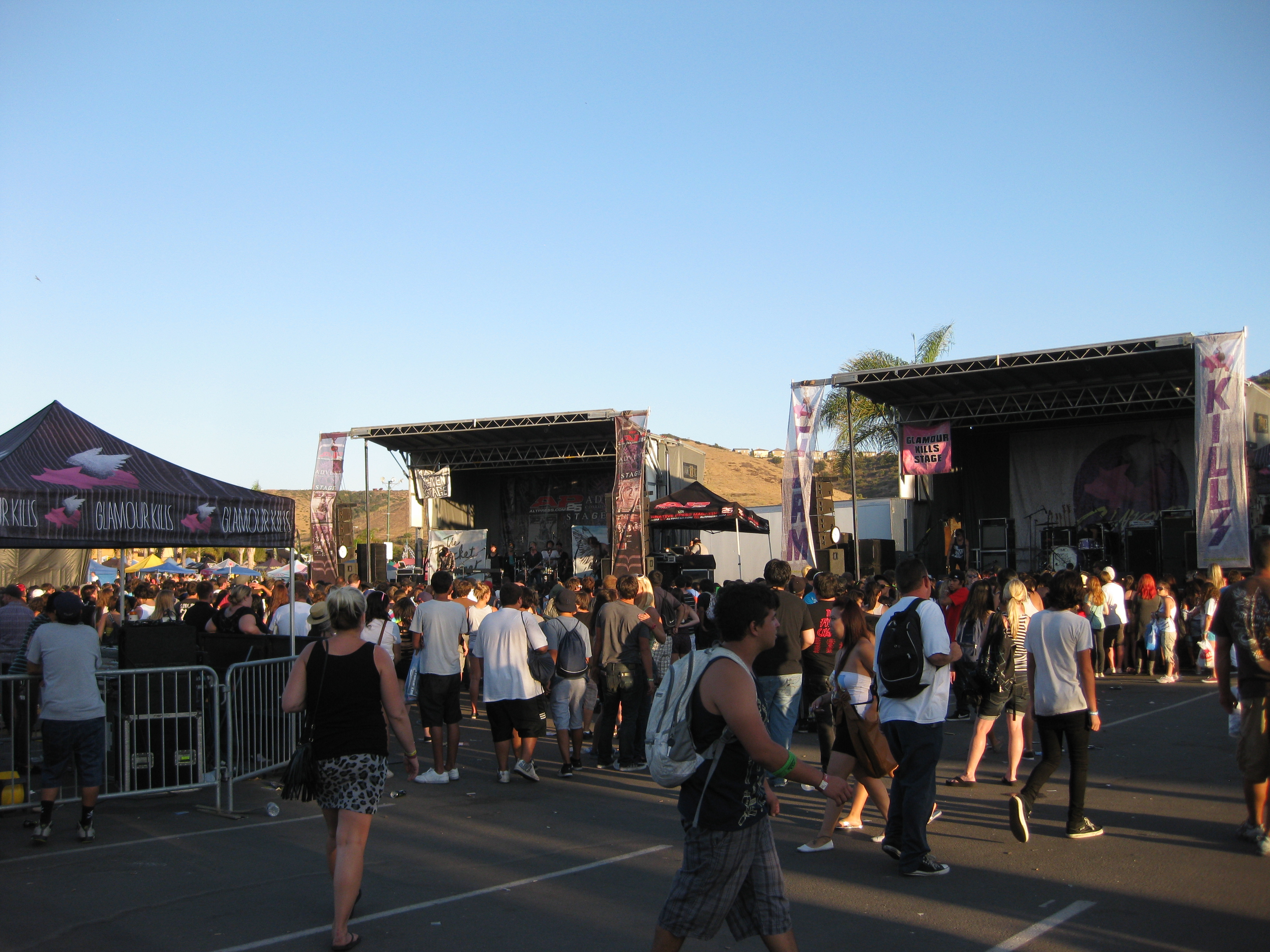 The Alternative Press/Advent Stage (left) and Glamour Kills stage (right) at the Warped Tour at the Cricket Wireless Amphitheatre in Chula Vista, California on August 10, 2010. Illustrates the use of multiple stages at the event.